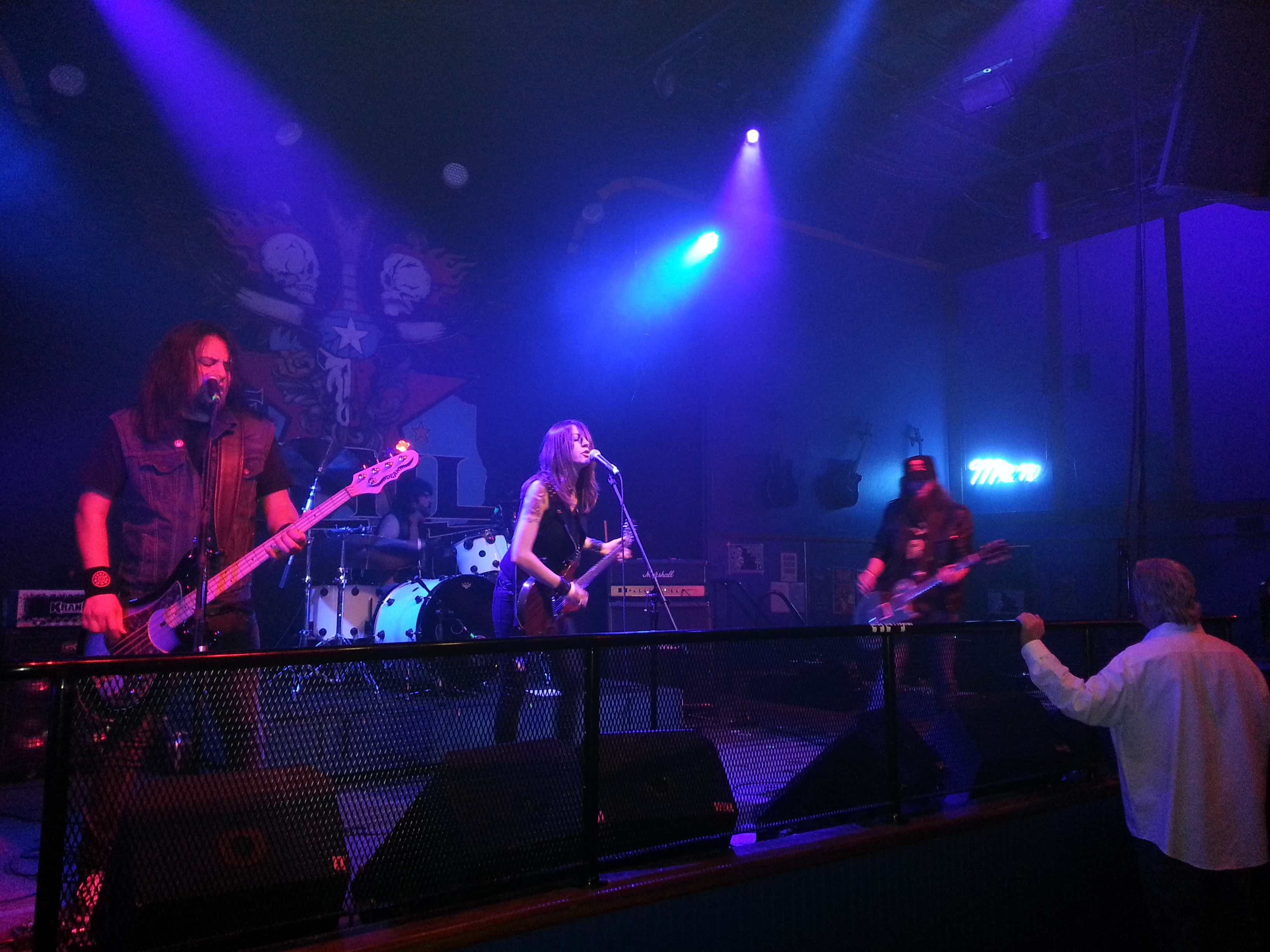 Hush Money performing with Bob Kakaha in 2015